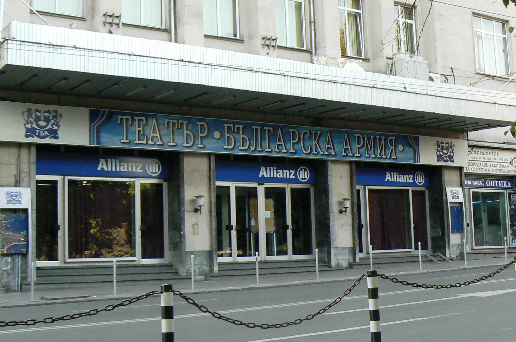 Building of the Bulgarian army Theatre, Rakovska Street, Sofia, Bulgaria